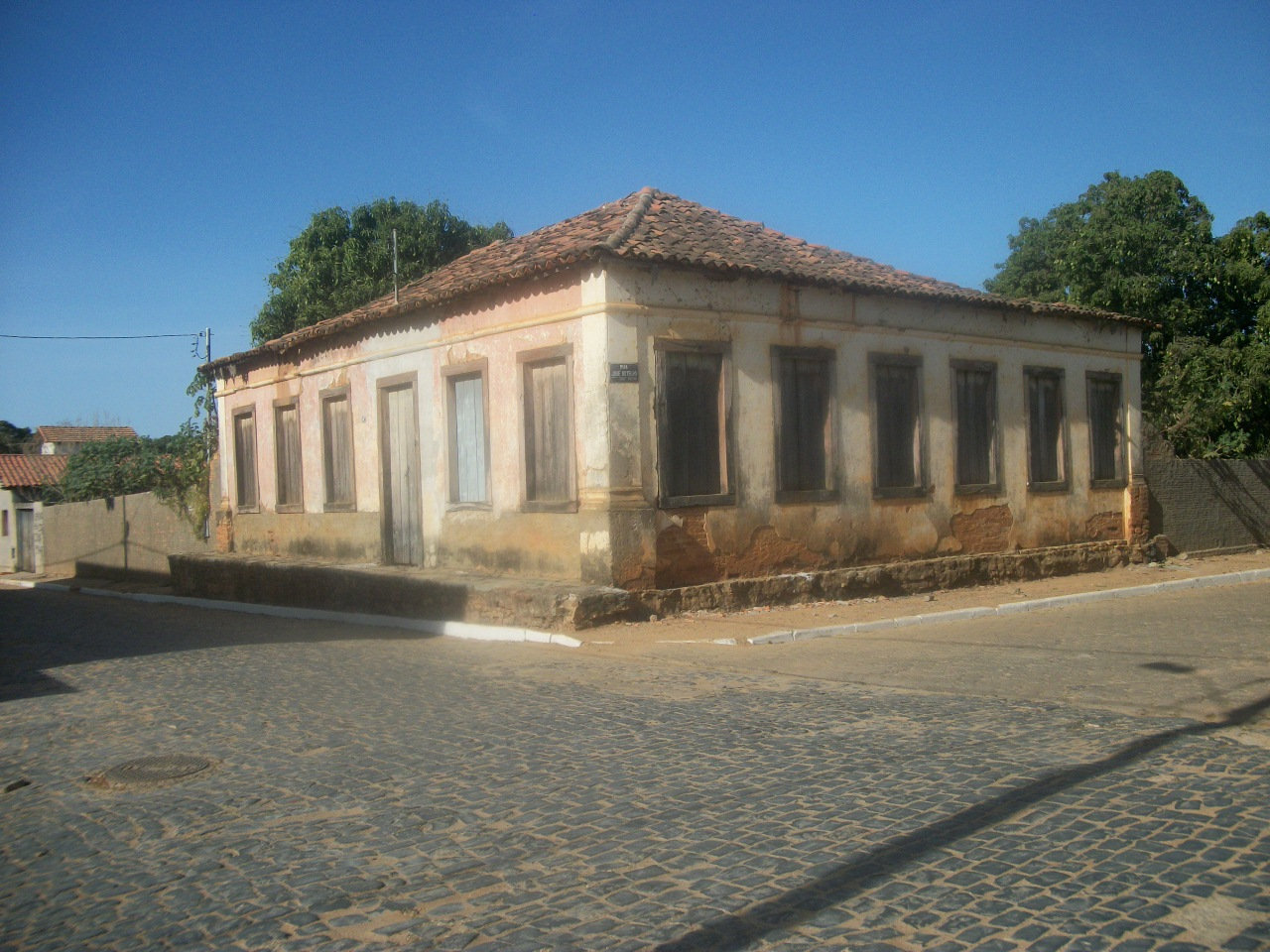 ESTA É A CASA DOS CASSI,CONSTRUIDA POR VOLTA DE 1900;E QUE PODE VIR A SE TORNAR UM MUSEU.